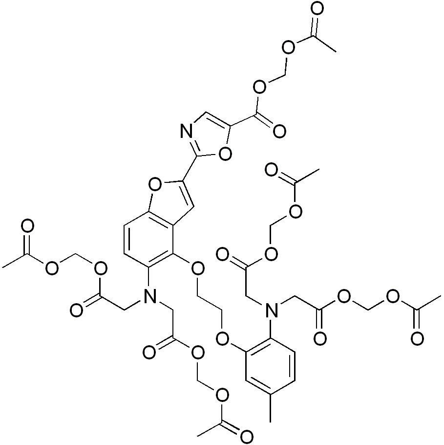 Chemical structure of Fura-2AM